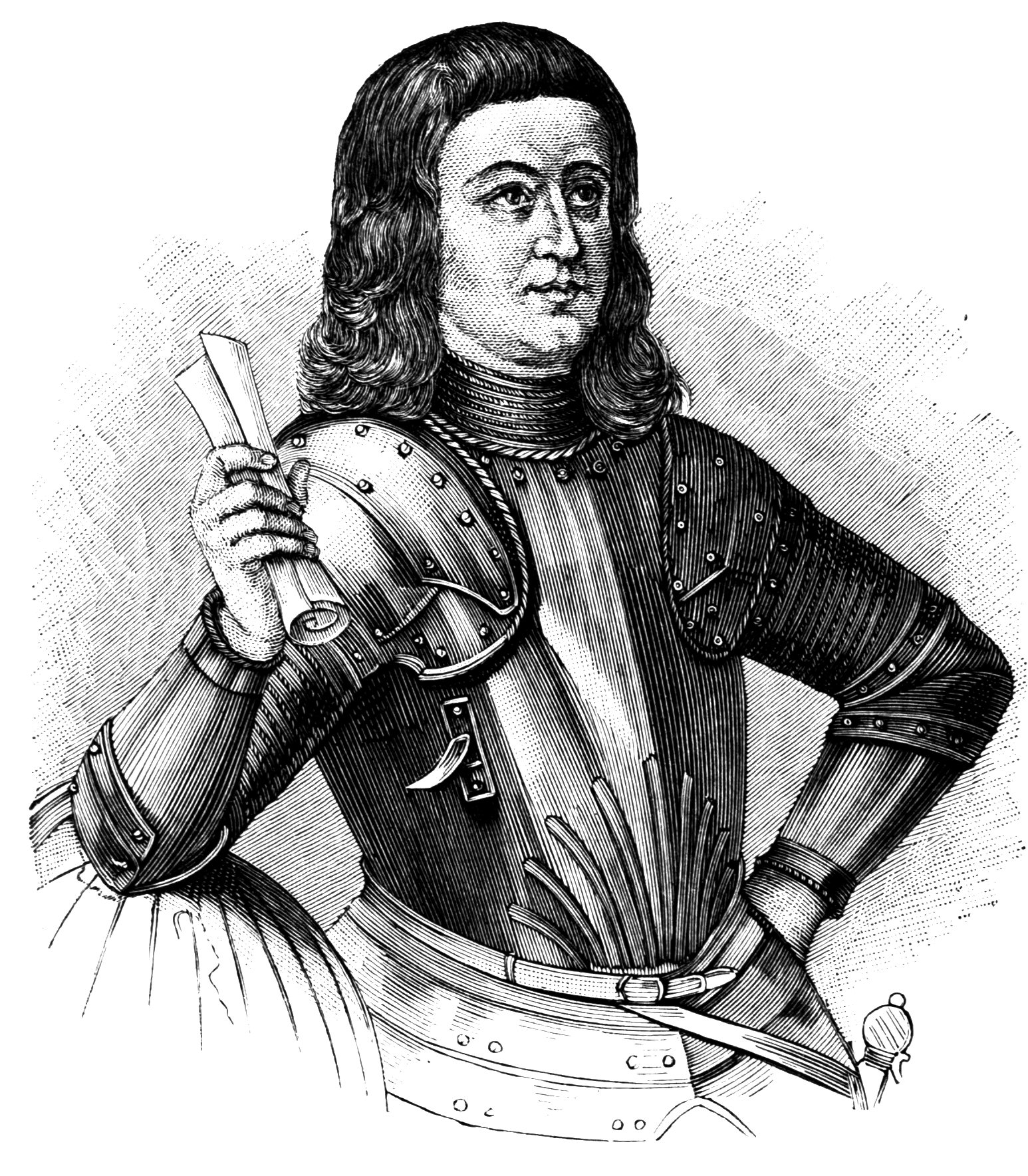 Scan from "Narrative and critical history of America, Volume 2" by Justin Winsor. Scans for whole book are at